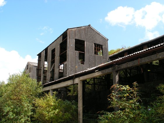 Picture of the old Mill at the Hemerdon Ball Mine taken by user of Wikipedia account. The picture is released into Public Domain by the author.